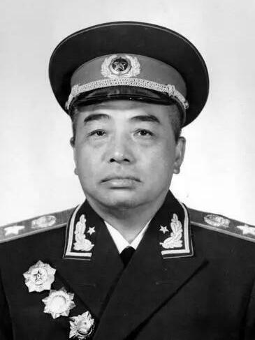 Peng Dehuai (simplified